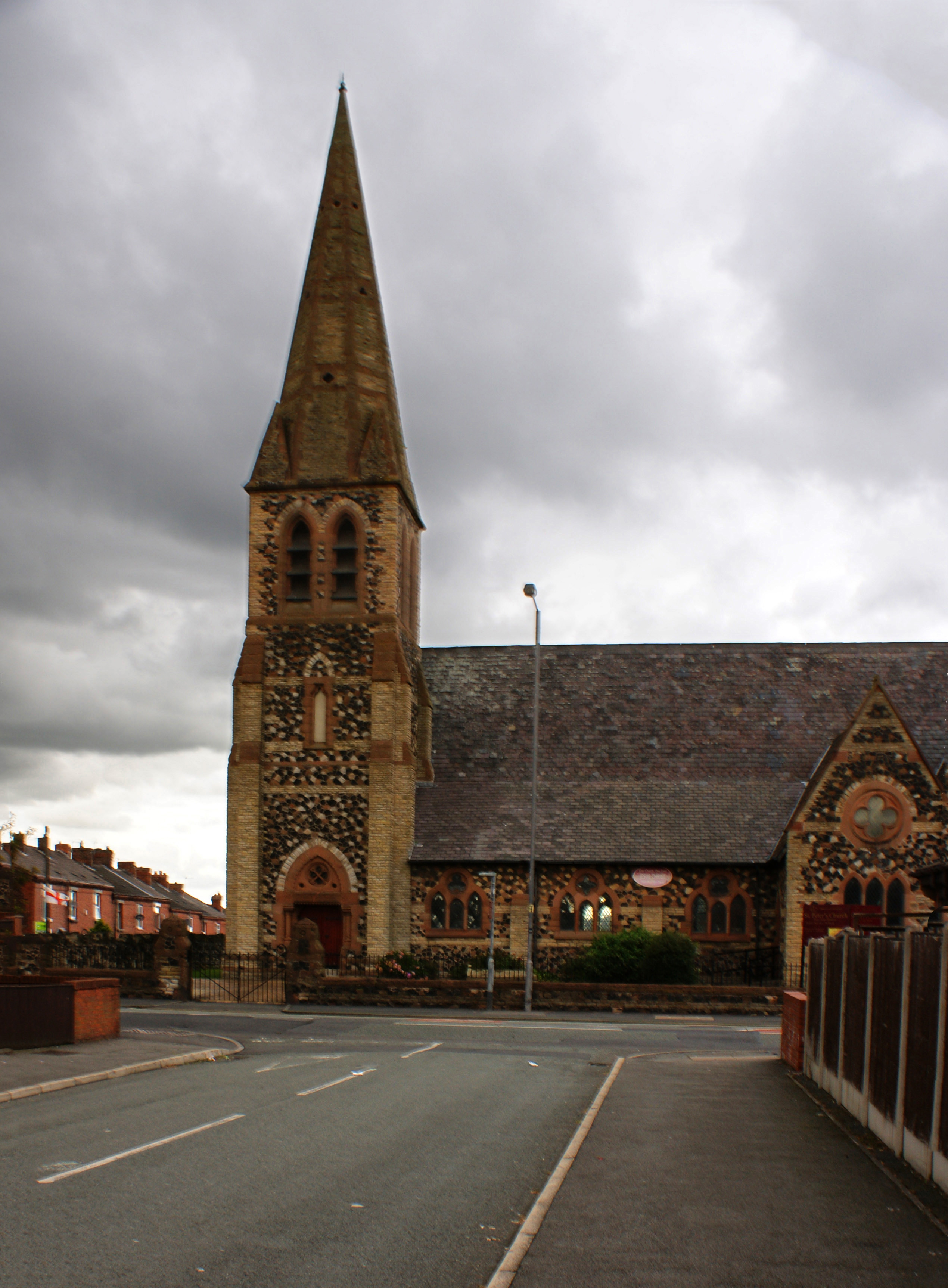 Photograph of St Peter's Church, Parr, St Helens, Merseyside